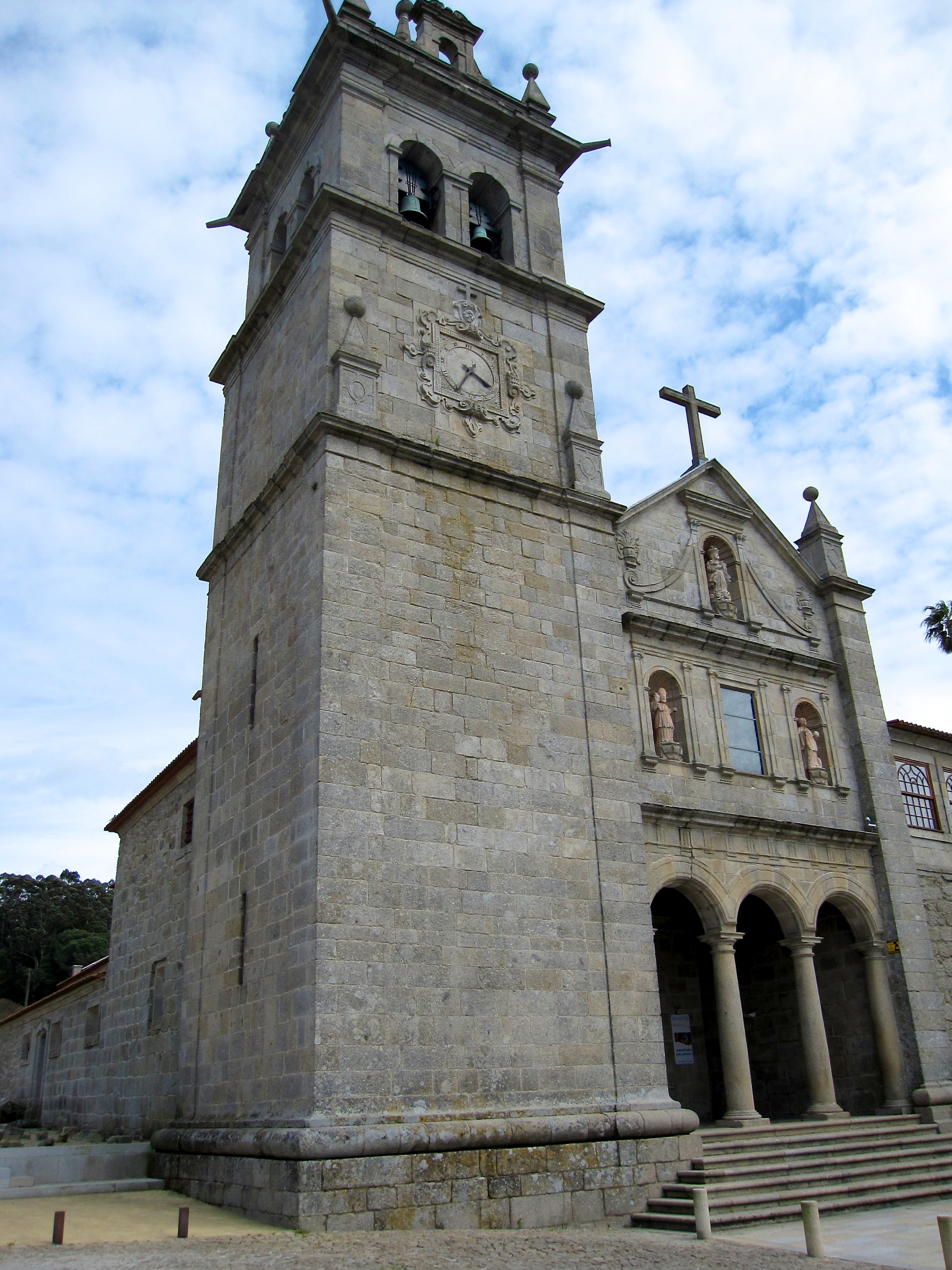 This file was uploaded for Wiki Loves Monuments in Portugal with the unique identifier 73201.